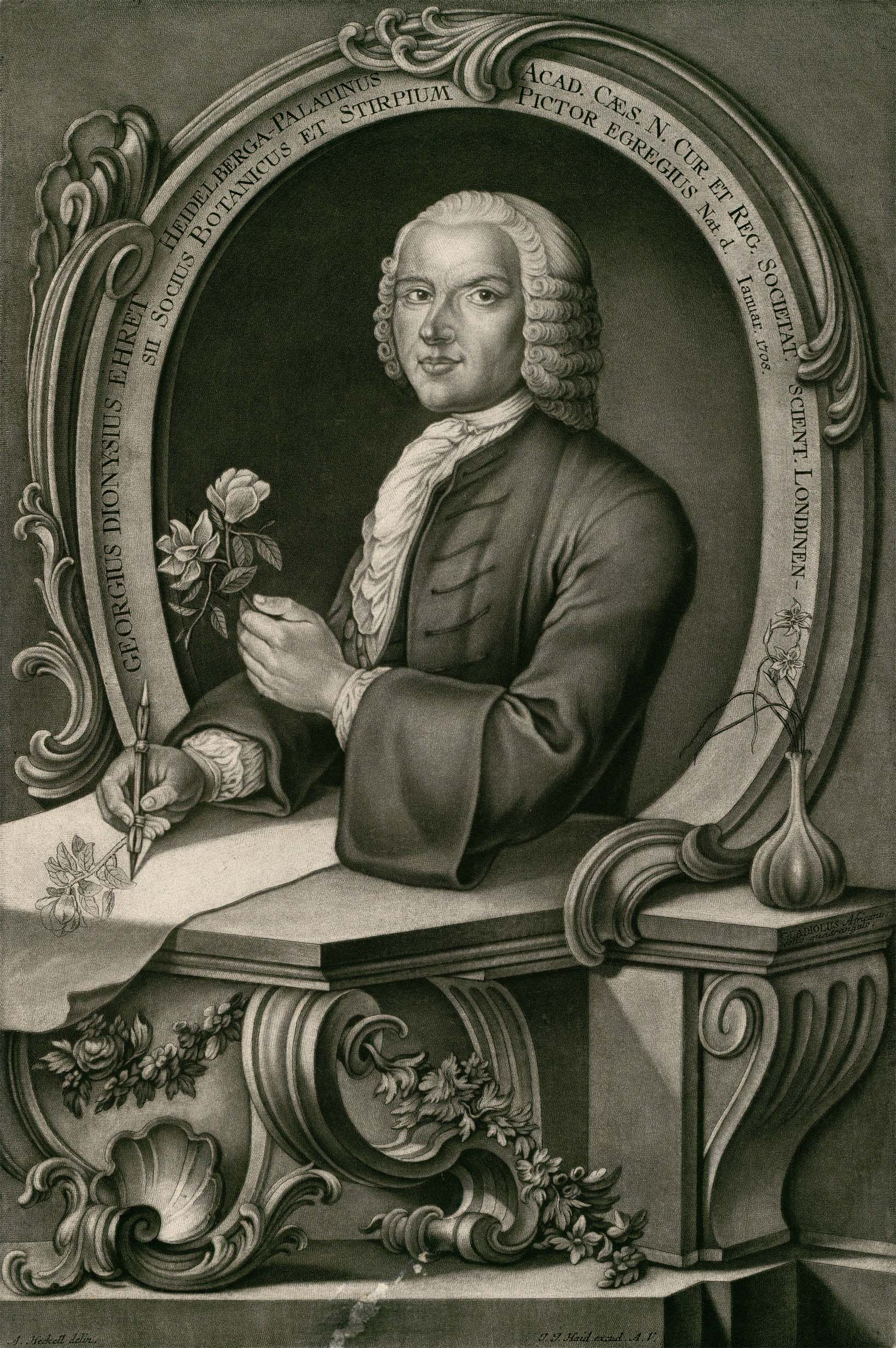 Mezzotint. Plate 402 x 266mm. Georg Dionysius Ehret, the greatest botanical artist of the 18th century, Ehret moved to London in the 1730s, where he painted the exotics at the Chelsea Physic Garden and established himself as a teacher of flower-painting and botany.